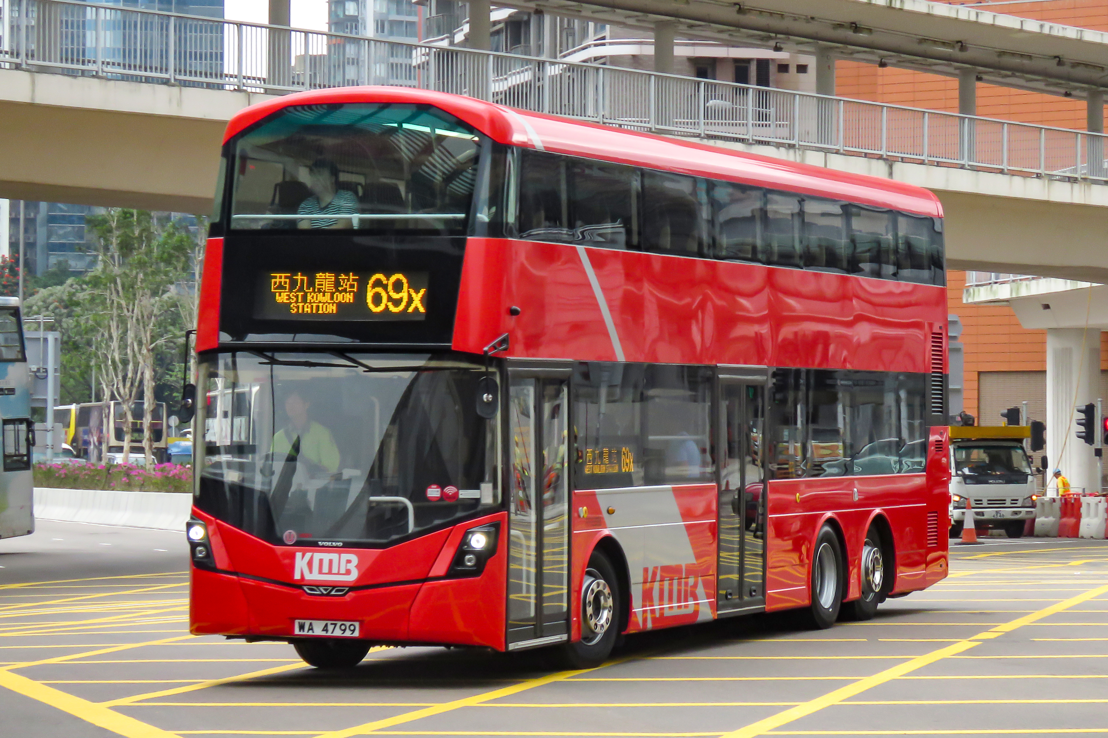 This declares the start of the new era of Wright Eclipse Gemini 3.